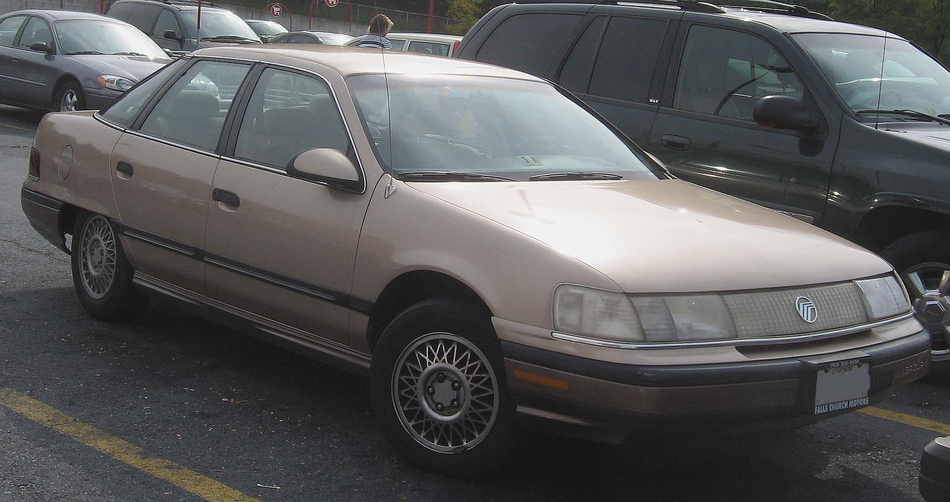 1989-1991 Mercury Sable photographed in Greenbelt, Maryland, USA.